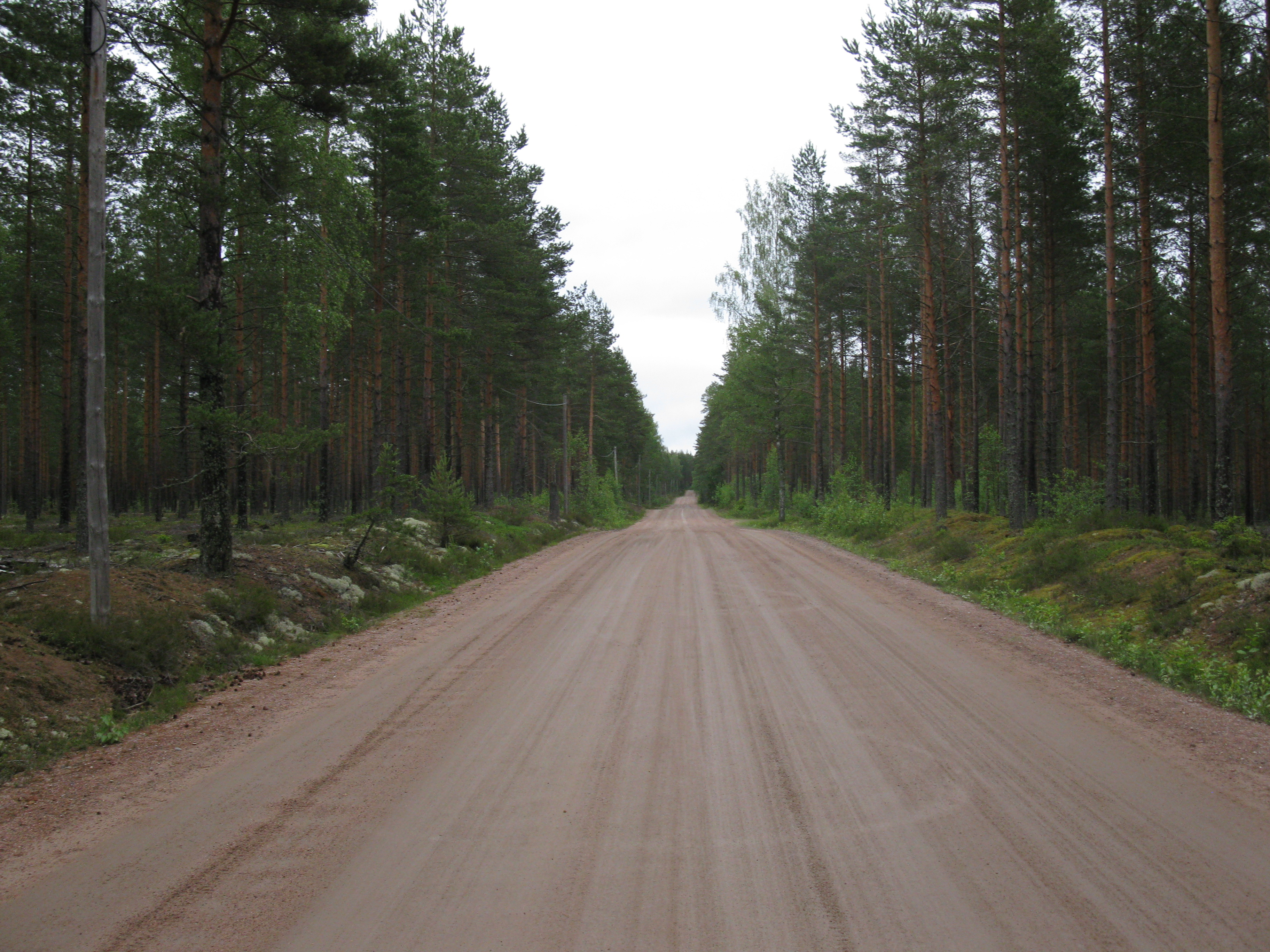 Lasikyläntie, a private Road between Kiikala and Johannislund in Salo, Finland. The road was built for the Johannislund glass factory in the 19th century.